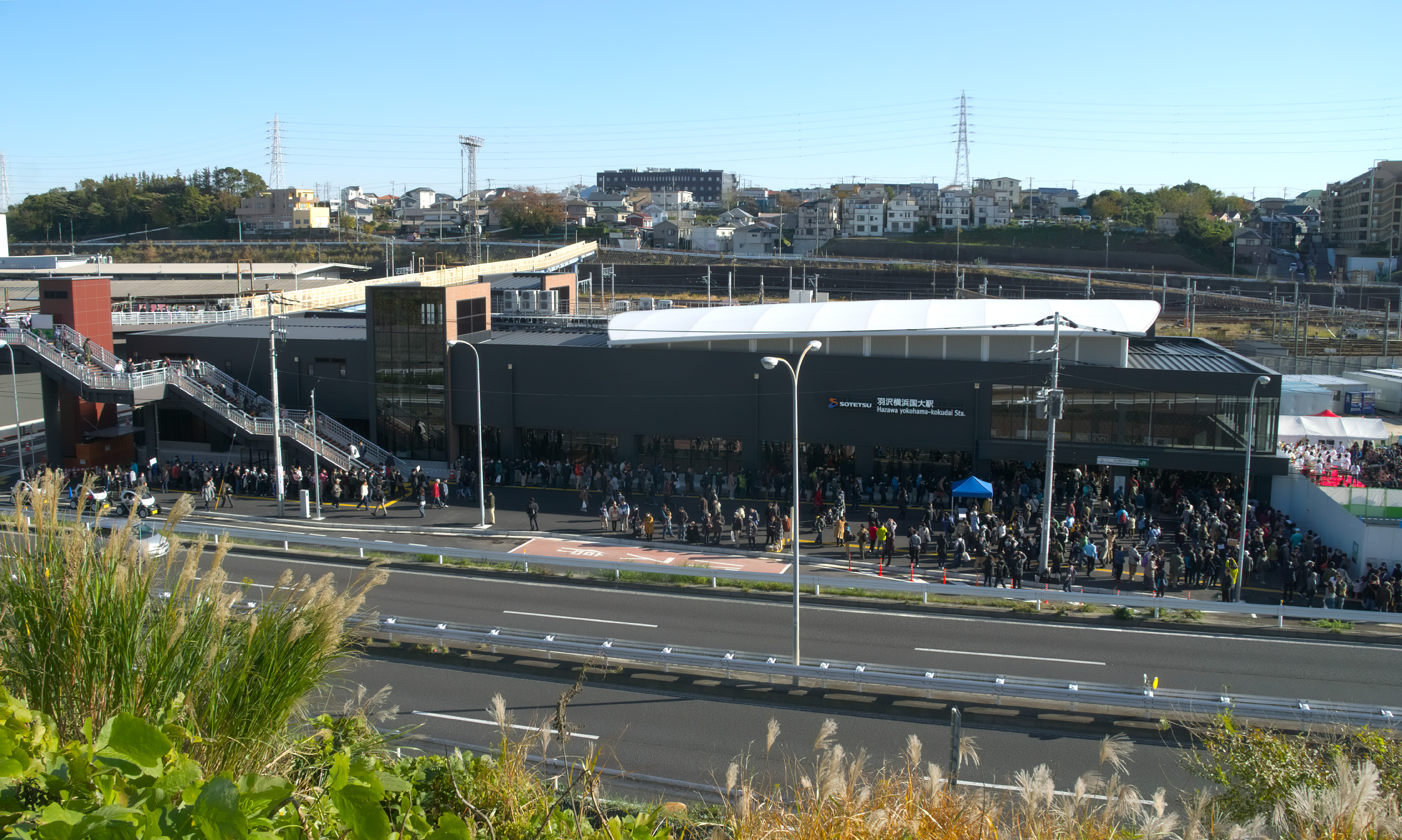 Opening Ceremony of Hazawa yokohama-kokudai Station which took place on Saturday, November 30, 2019.